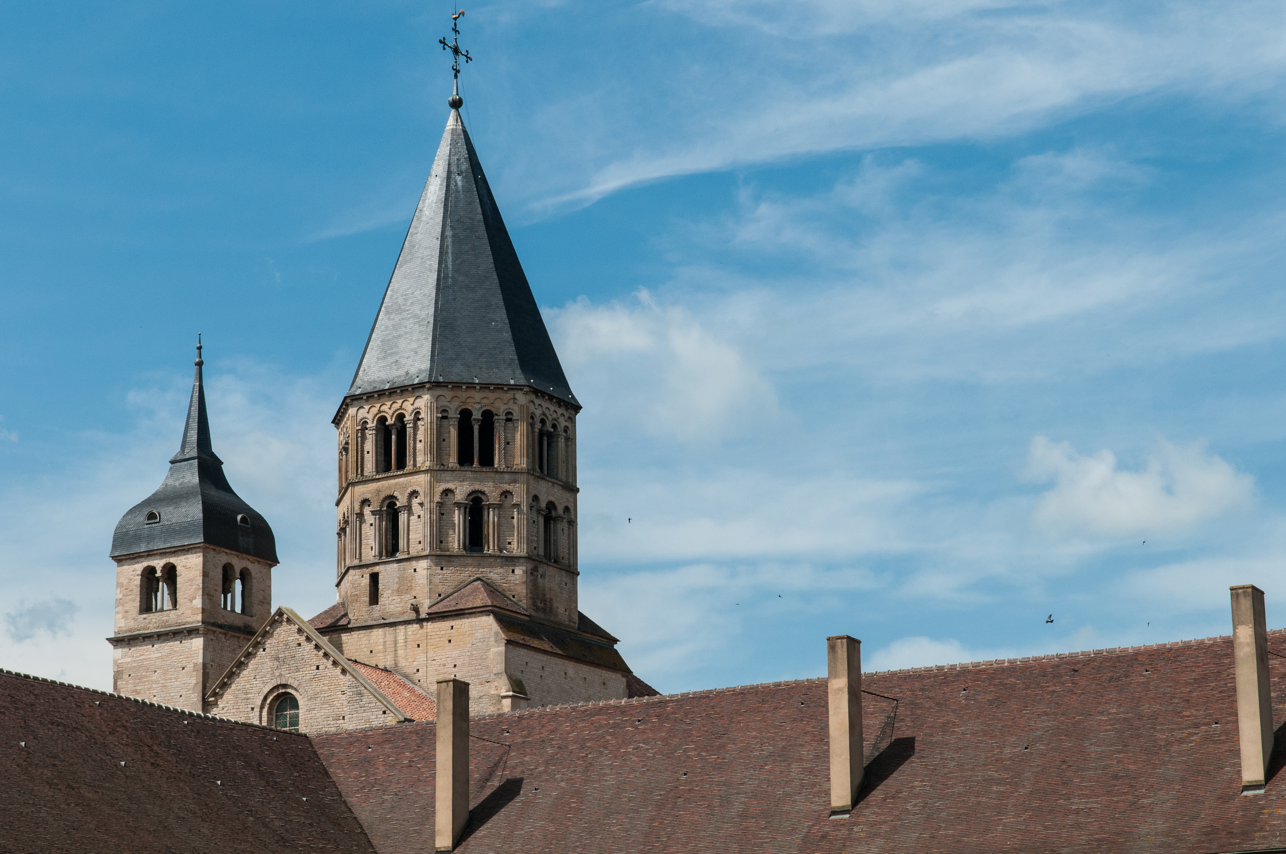 Cluny Abbey (or Cluni, or Clugny) is a Benedictine monastery in Cluny, Saône-et-Loire, France. It was built in the Romanesque style, with three churches built in succession from the 10th to the early 12th centuries. Cluny was founded by William I, Duke of Aquitaine in 910. He nominated Berno as the first Abbot of Cluny, subject only to Pope Sergius III. The Abbey was notable for its stricter adherence to the Rule of St. Benedict and the place where the Benedictine Order was formed, whereby Cluny became acknowledged as the leader of western monasticism. The establishment of the Benedictine order was a keystone to the stability of European society that was achieved in the 11th century. In 1790 during the French Revolution, the abbey was sacked and mostly destroyed. Only a small part of the original remains. Dating around 1334, the abbots of Cluny had a townhouse in Paris known as the Hôtel de Cluny, which has been a public museum since 1833. Apart from the name, it no longer possesses anything originally connected with Cluny. Cluny Abbey. (2012, May 15). In Wikipedia, The Free Encyclopedia. Retrieved 08:00, May 31, 2012, from